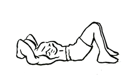 an exercise of abs